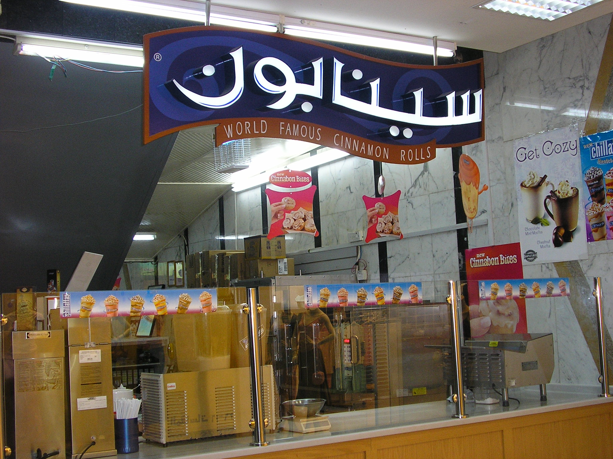 Cinnabon in Medina, Saudi Arabia. This location is near Al Masjid al Nabawi.